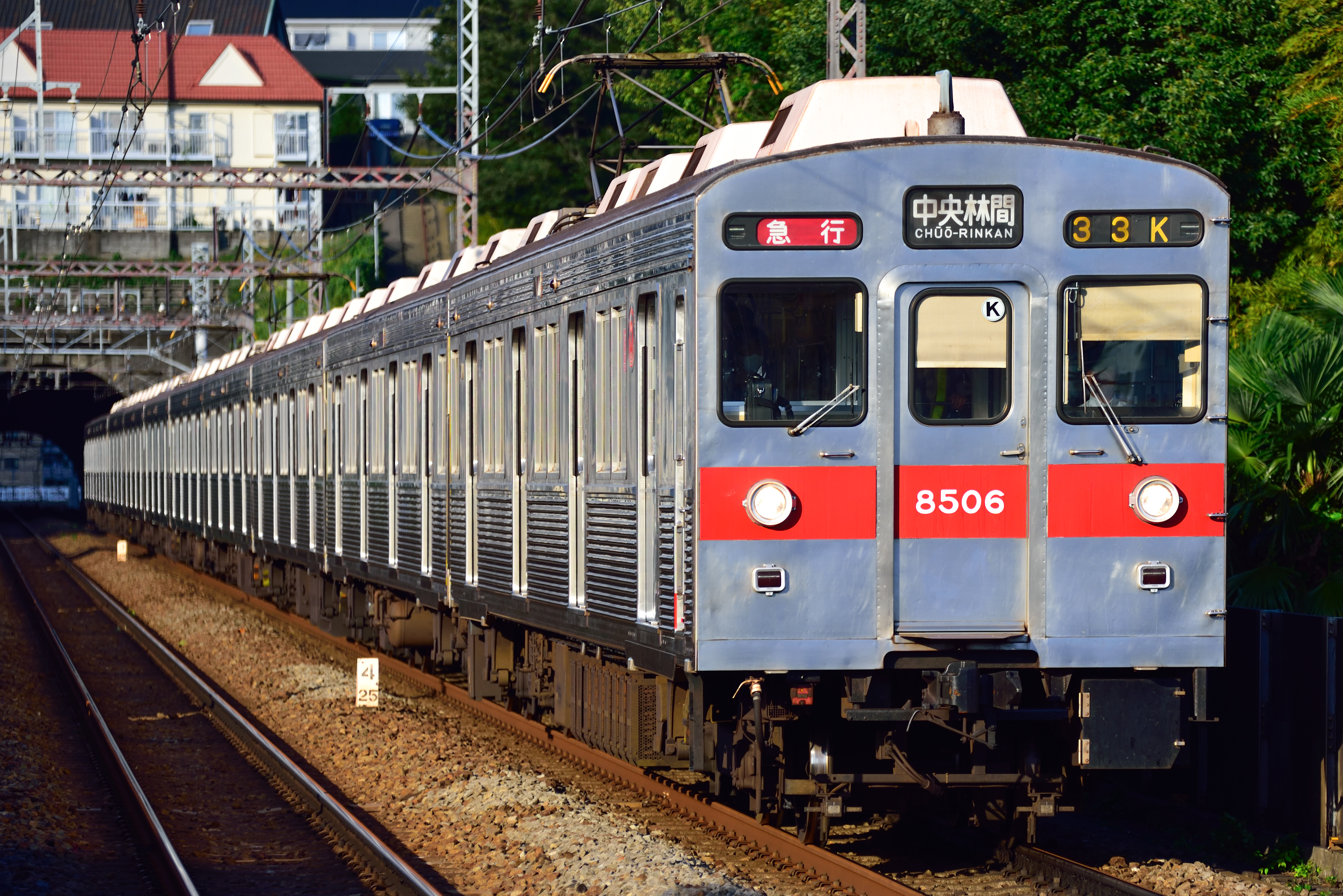 Tokyu 8500 series EMU set 8606 approaching Tana Station in Kanagawa Prefecture, Japan